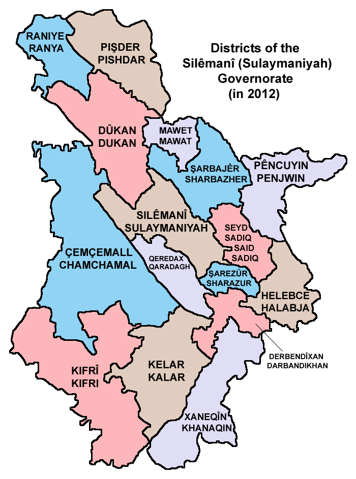 Map showing the districts of the Silêmanî (Sulaymaniyah) Governorate of Kurdistan Region in Iraq (in 2012).